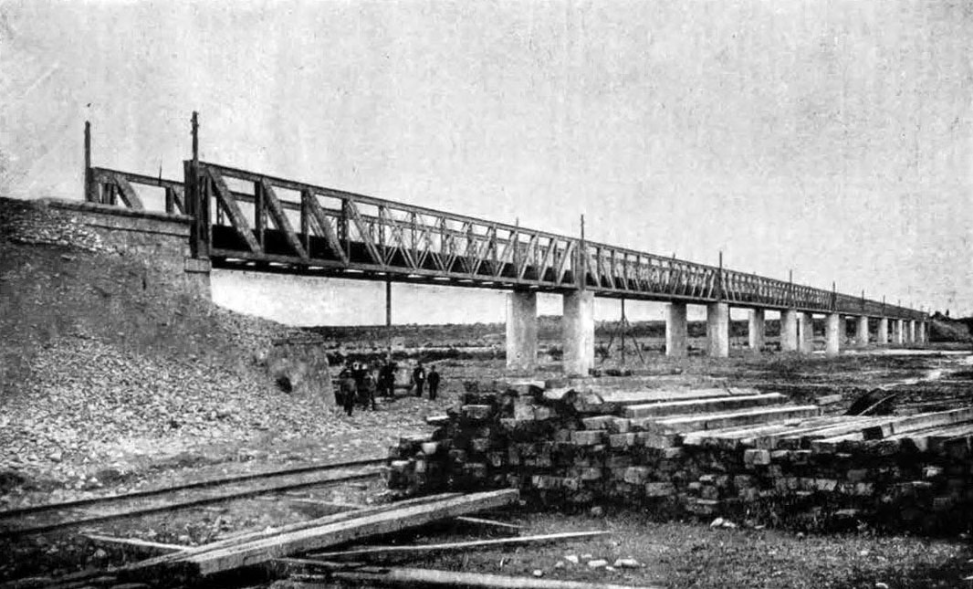 Ñuble Railway Bridge ca. 1888.